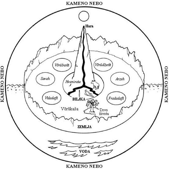 World according to Avesta adapted from M. Boyce, Textual Sources for the Study of Zoroastrianism, Glasgow, 1984, p. 17, with Croatian descriptionHrvatski: Svijet prema Avesti